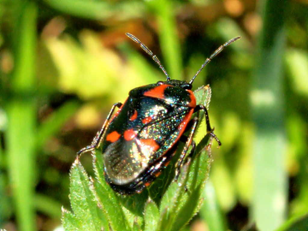 Name: Eurydema oleraceum. Family: Pentatomidae. Location: Münster, NRW, Germany